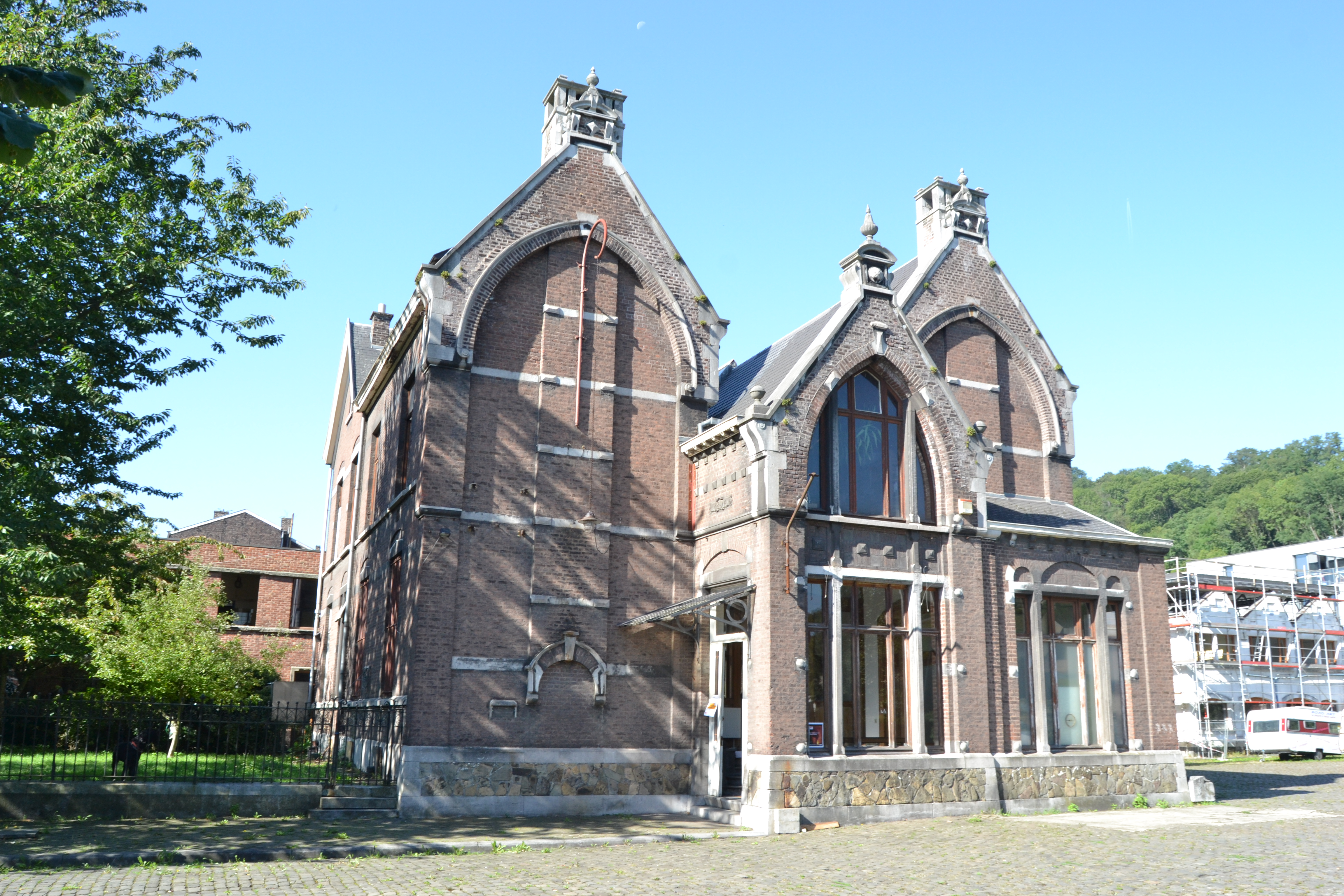 Ancient administrative seat of the Société anonyme des Charbonnages de Bonne Espérance, Batterie, Bonne-Fin et Violette (coal mine in Liège, Belgium)